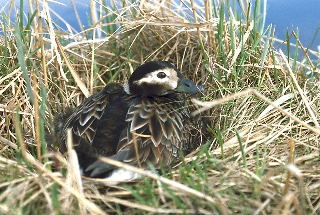 Female Long-tailed Duck (Clangula hyemalis) on nest